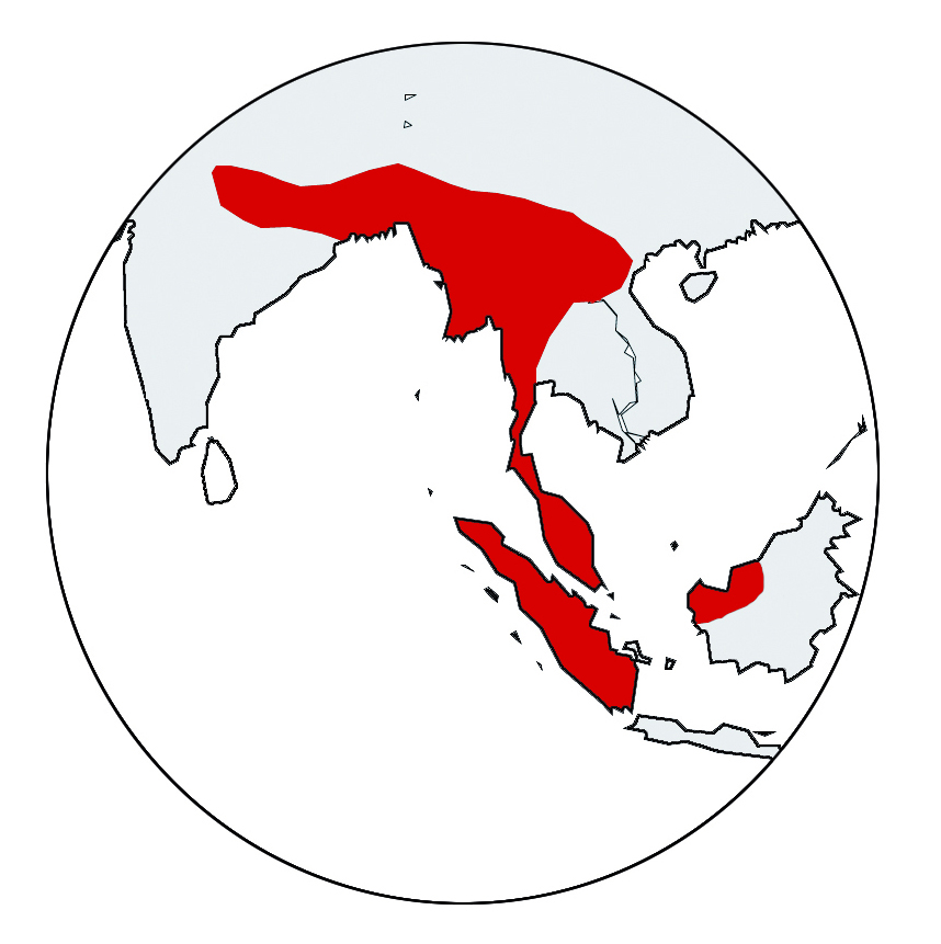 Distribution of the pachychilid gastropod Brotia